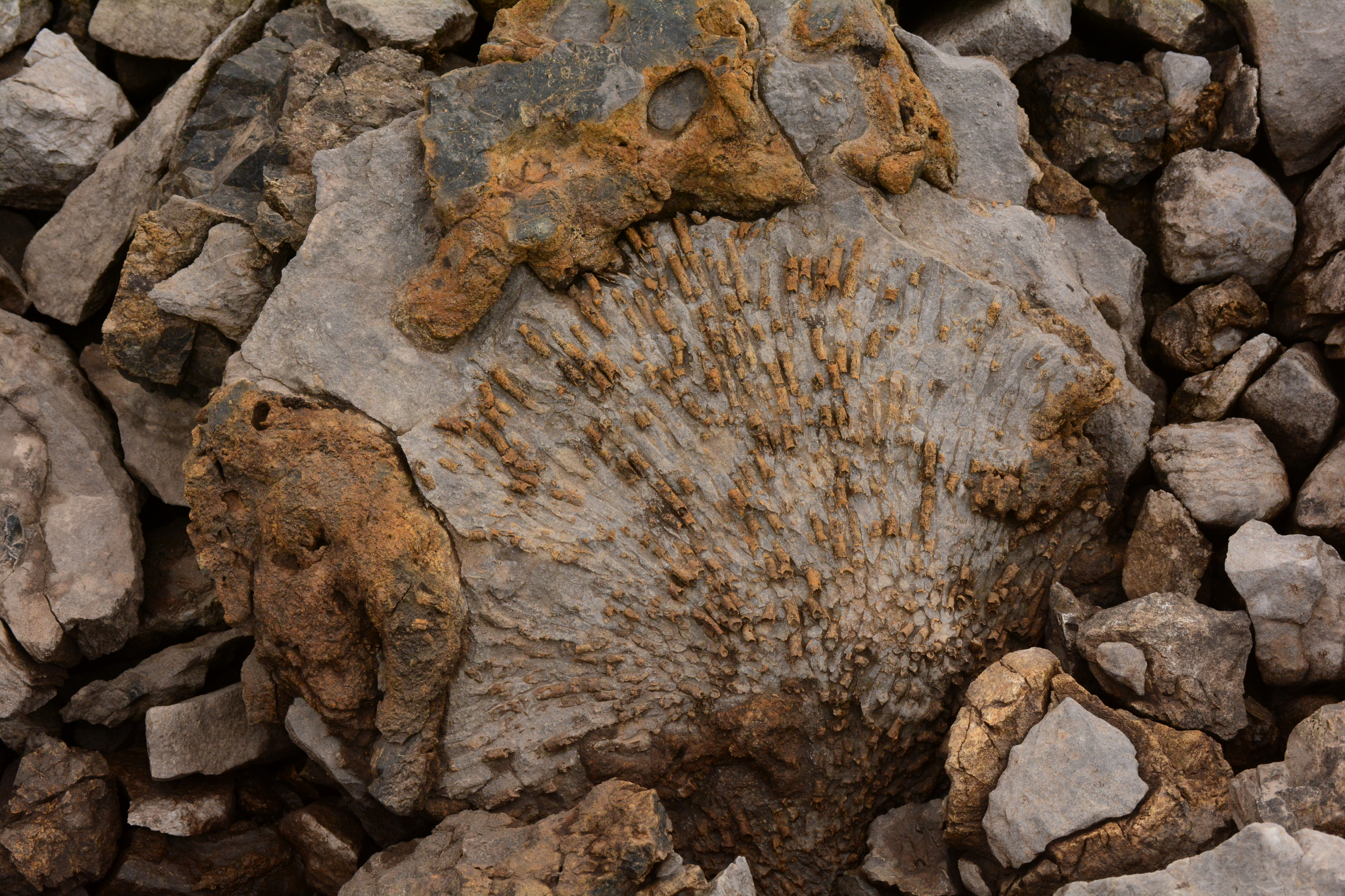 Much of the Brooks Range is made of ancient seabed. These coral fossils were found in a high pass near Limestack Mountain.